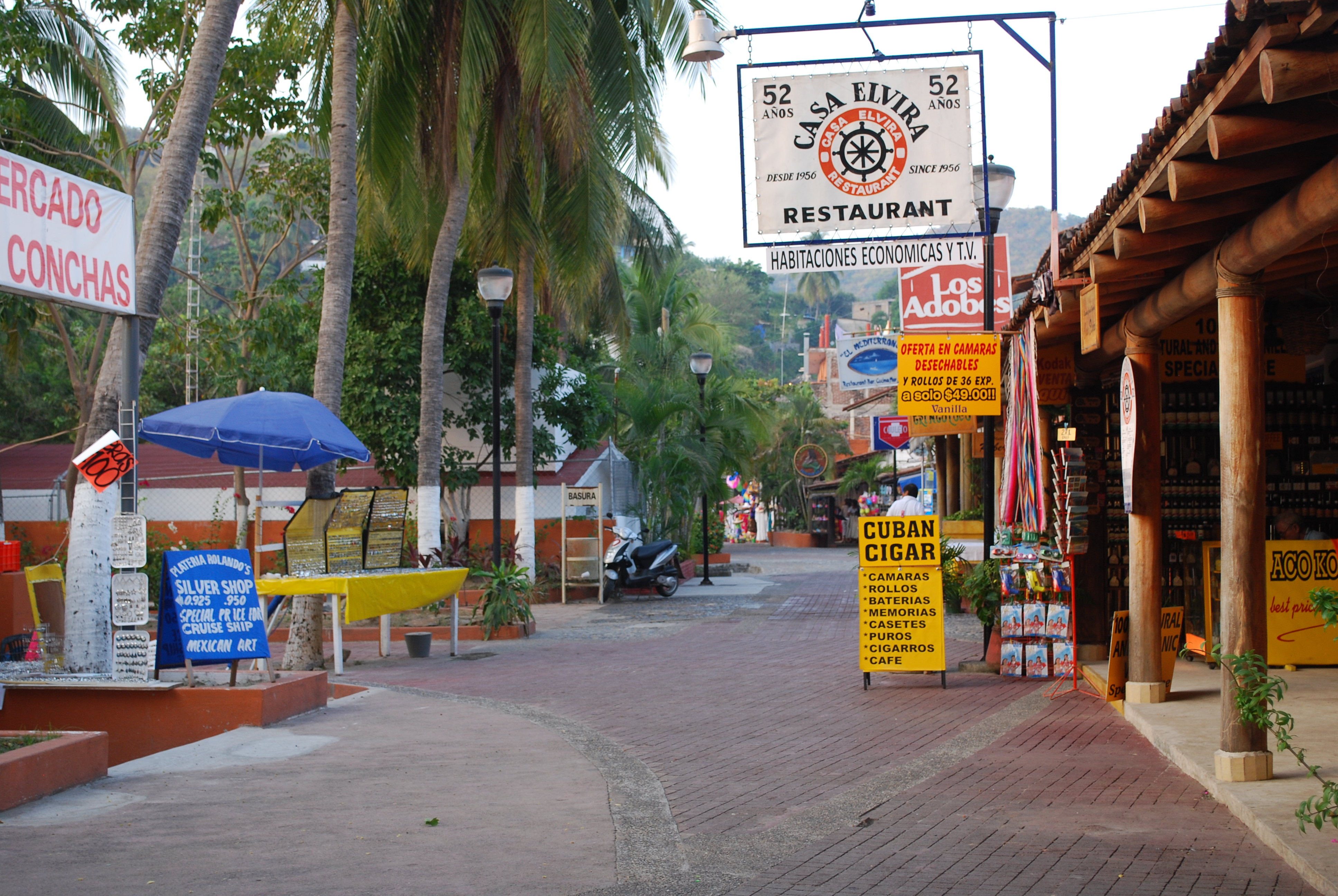 Part of the boardwalk at Zihuatanejo, Mexico